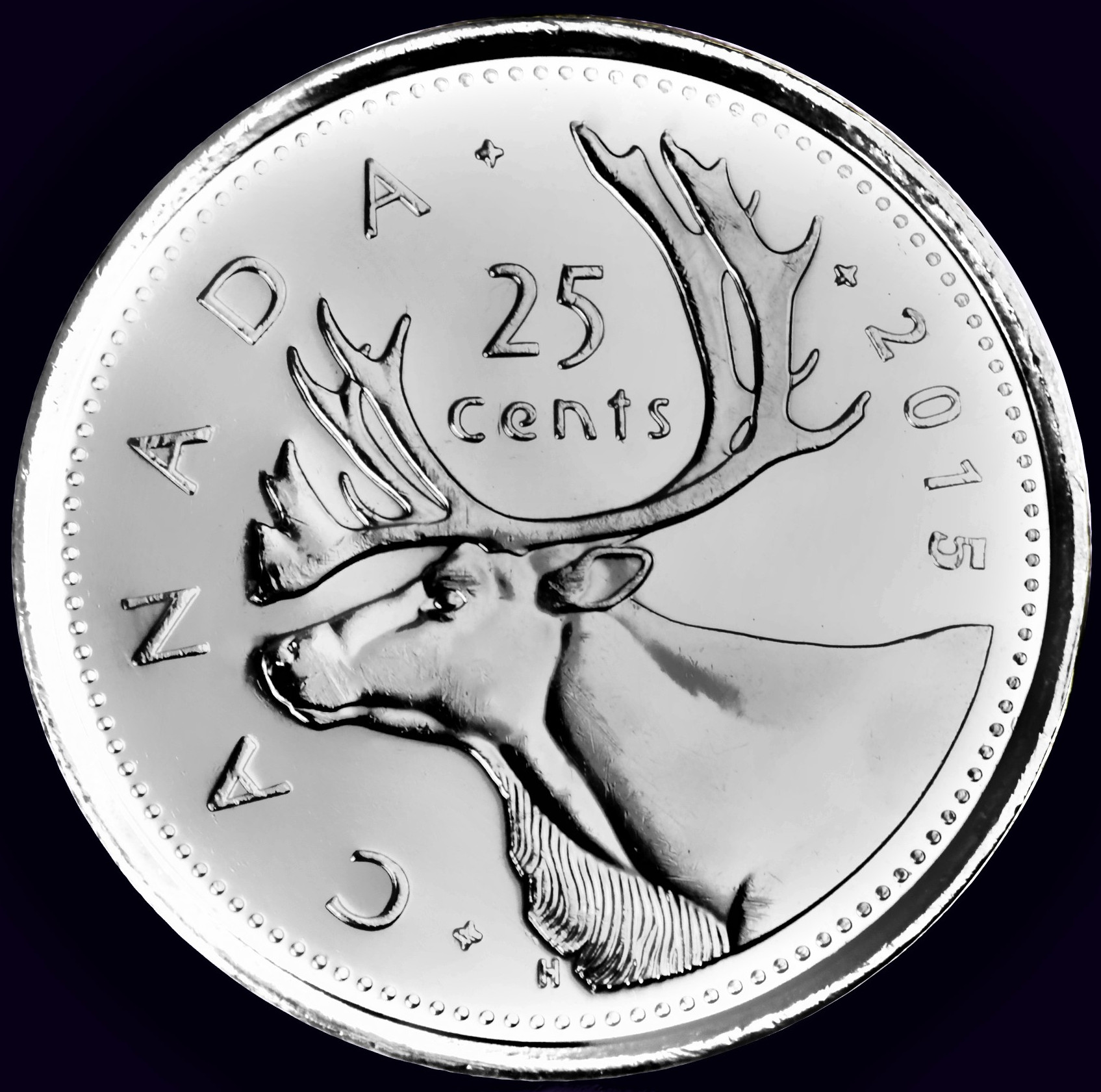 Reverse of a Canadian quarter showing a caribou